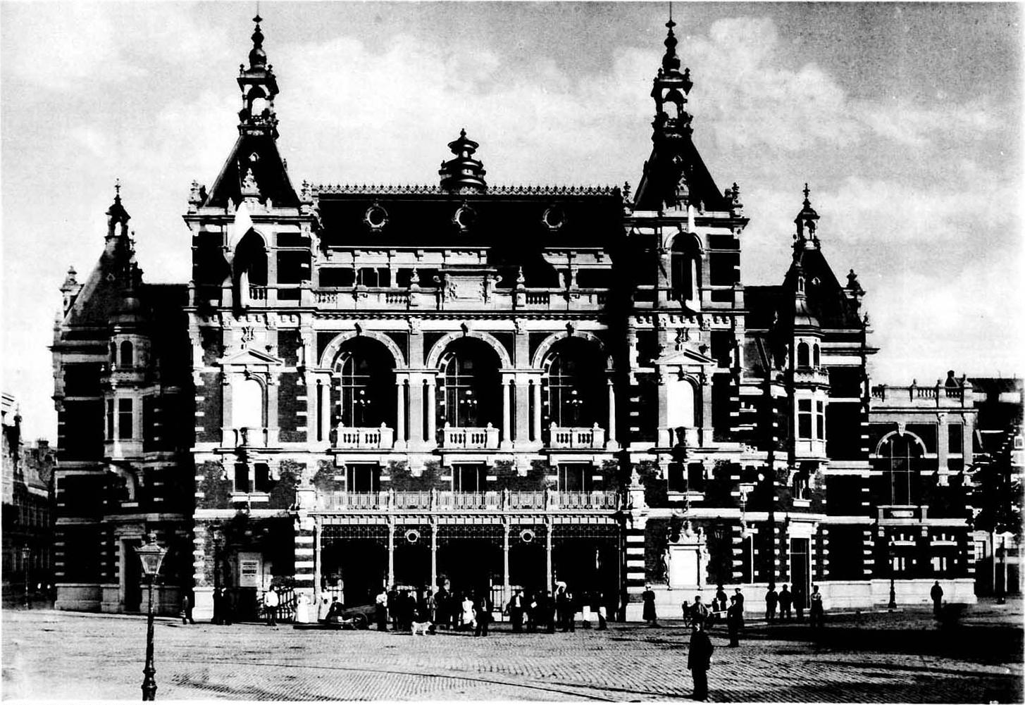 Stadsschouwburg (City Theatre), Amsterdam.